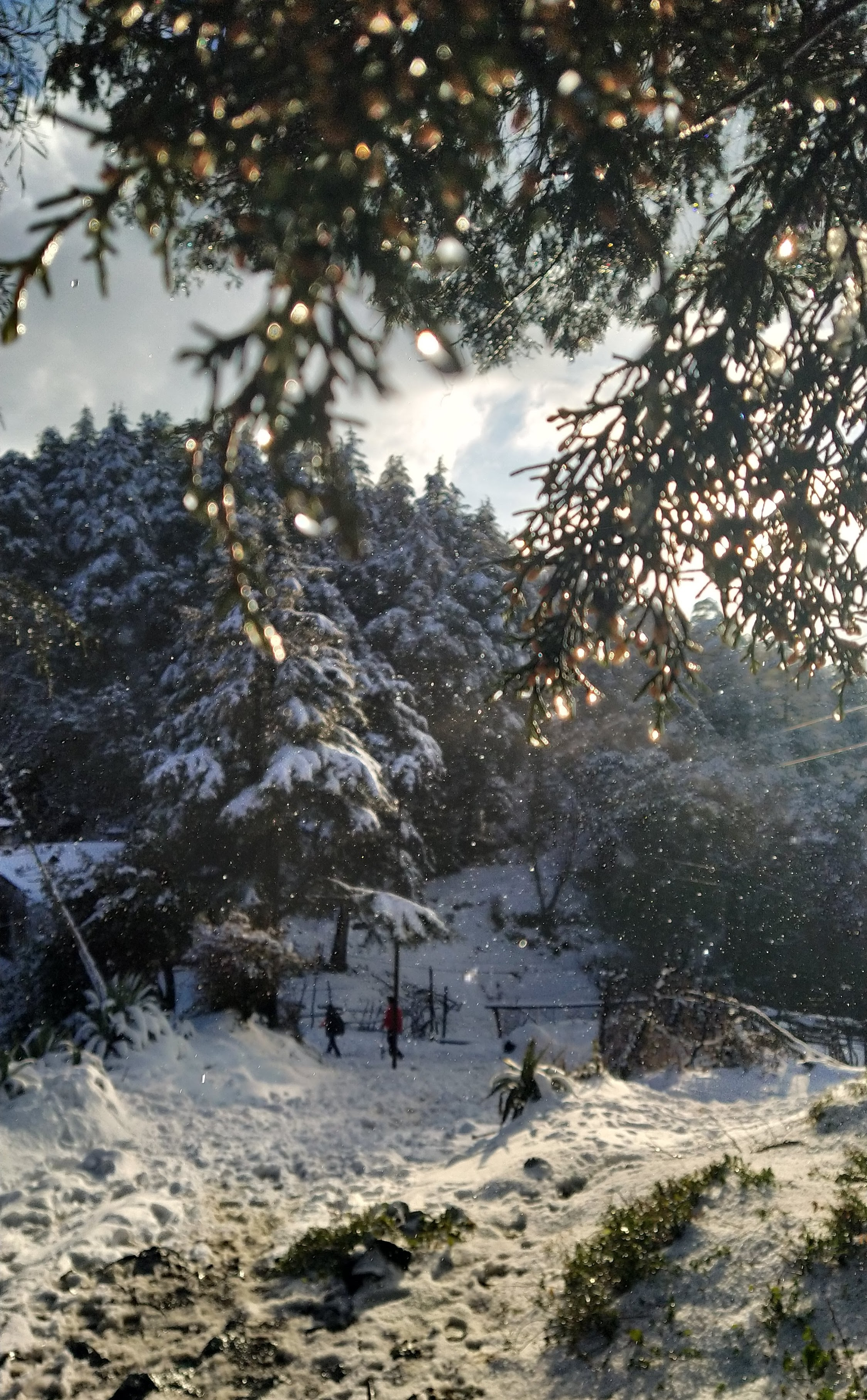 Naini Peak